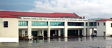 Lokpriya Gopinath Bordoloi International Airport, the largest airport and gateway to India's North Eastern States.